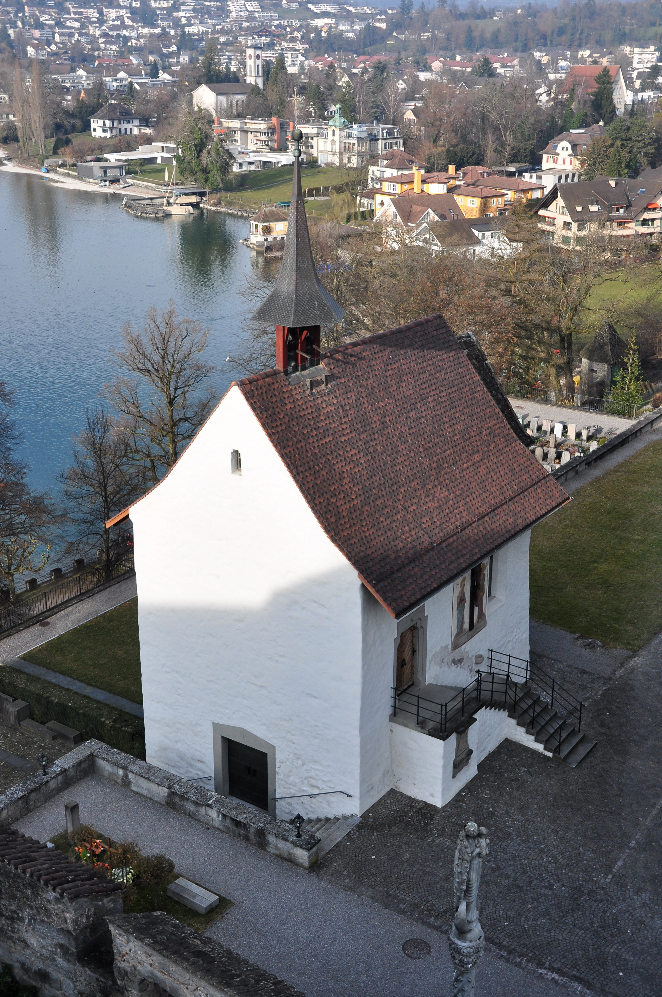 Liebfrauenkapelle in Rapperswil (Switzerland) as seen from the palas of Schloss Rapperswil